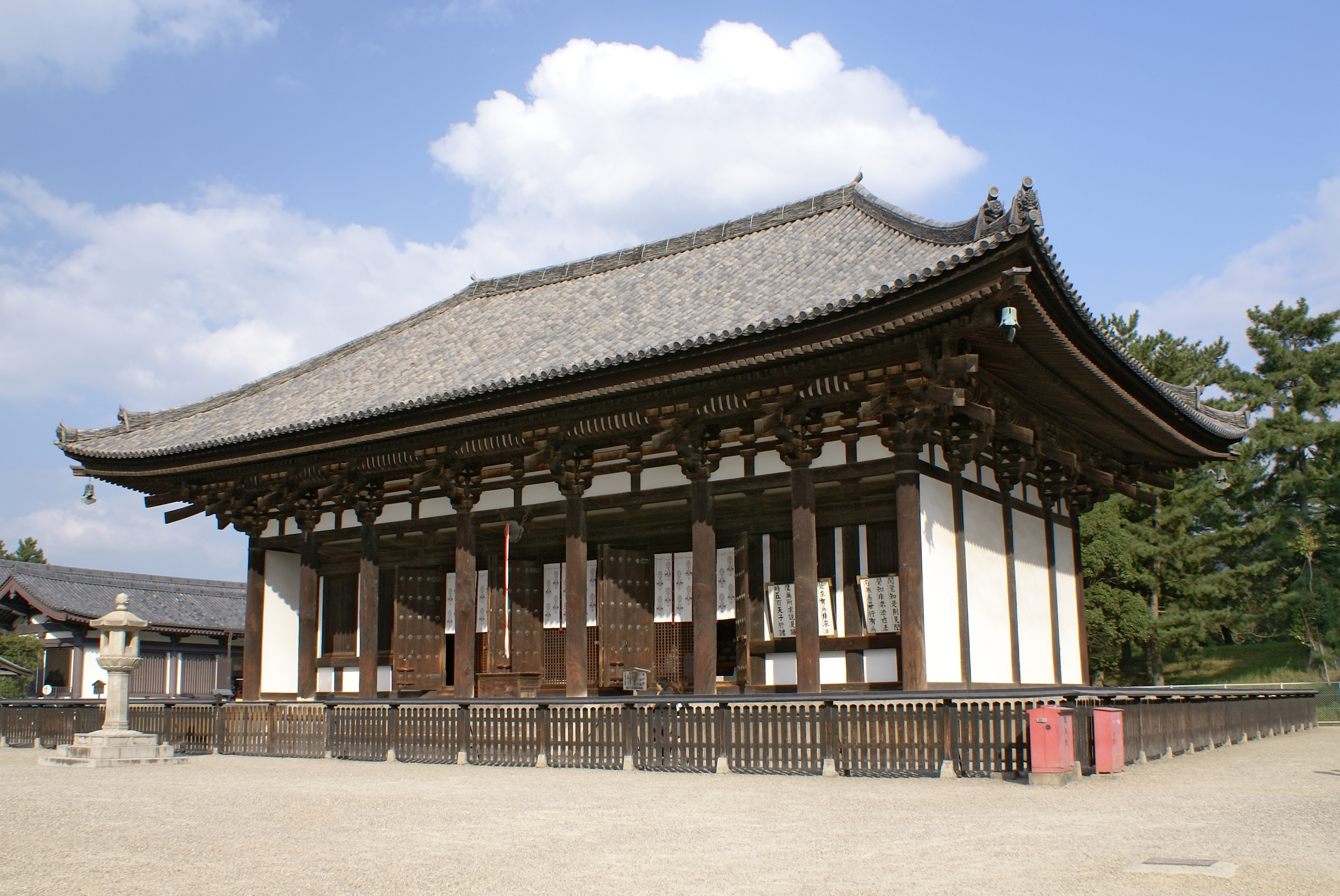 Tokondo of Kofukuji (Japan's national treasure), in Nara, Nara prefecture, Japan